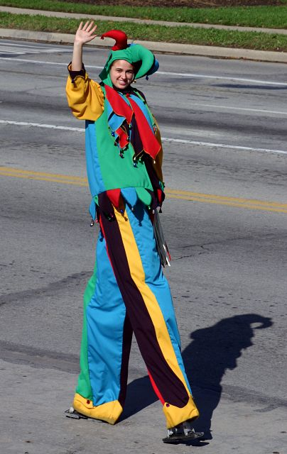 Stiltwalker marching in a parade.